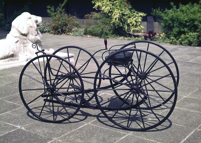 An object from the collections of the Science Museum (London) as copied from their ObjectWiki.